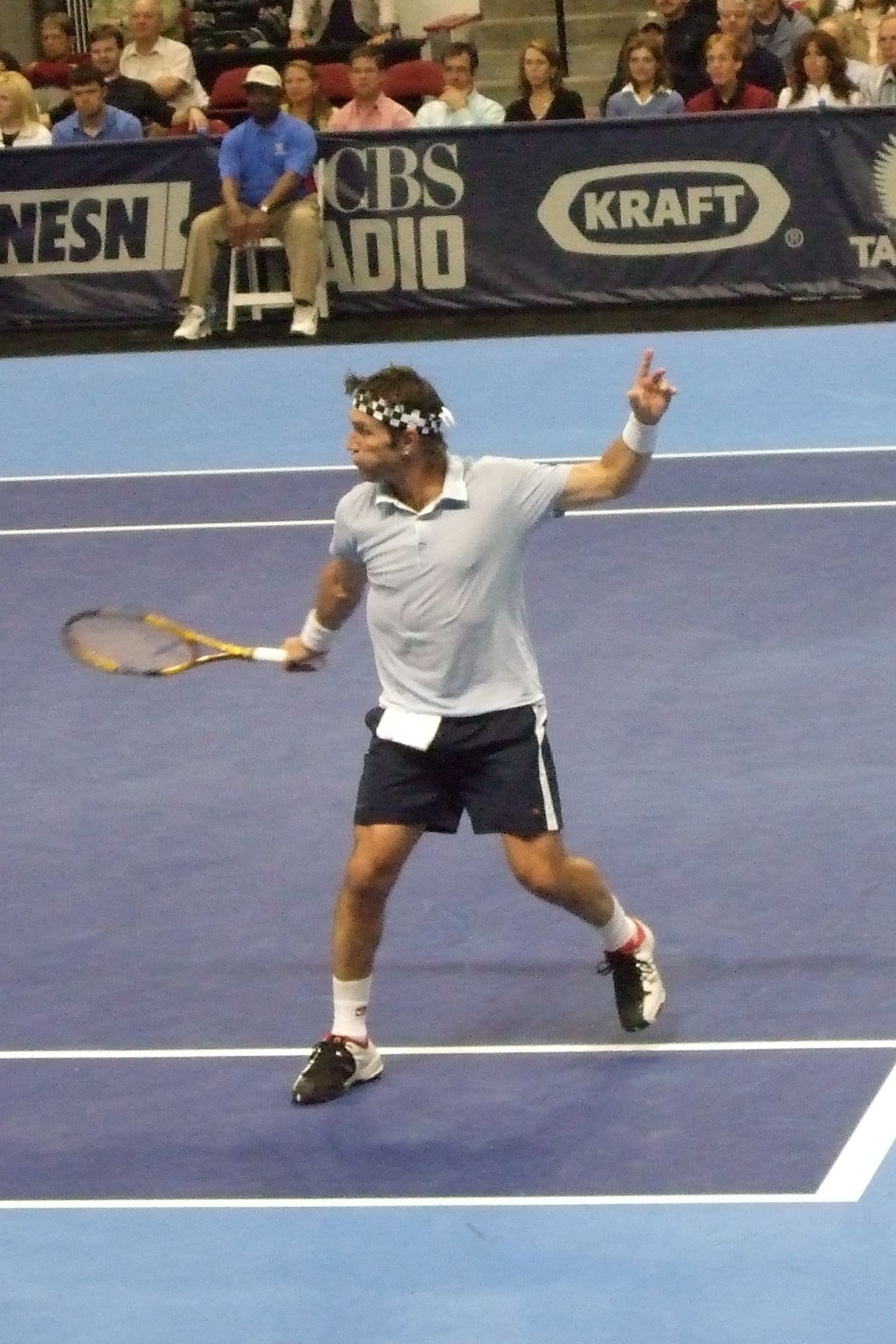 Pat Cash, Campions Cup, Boston